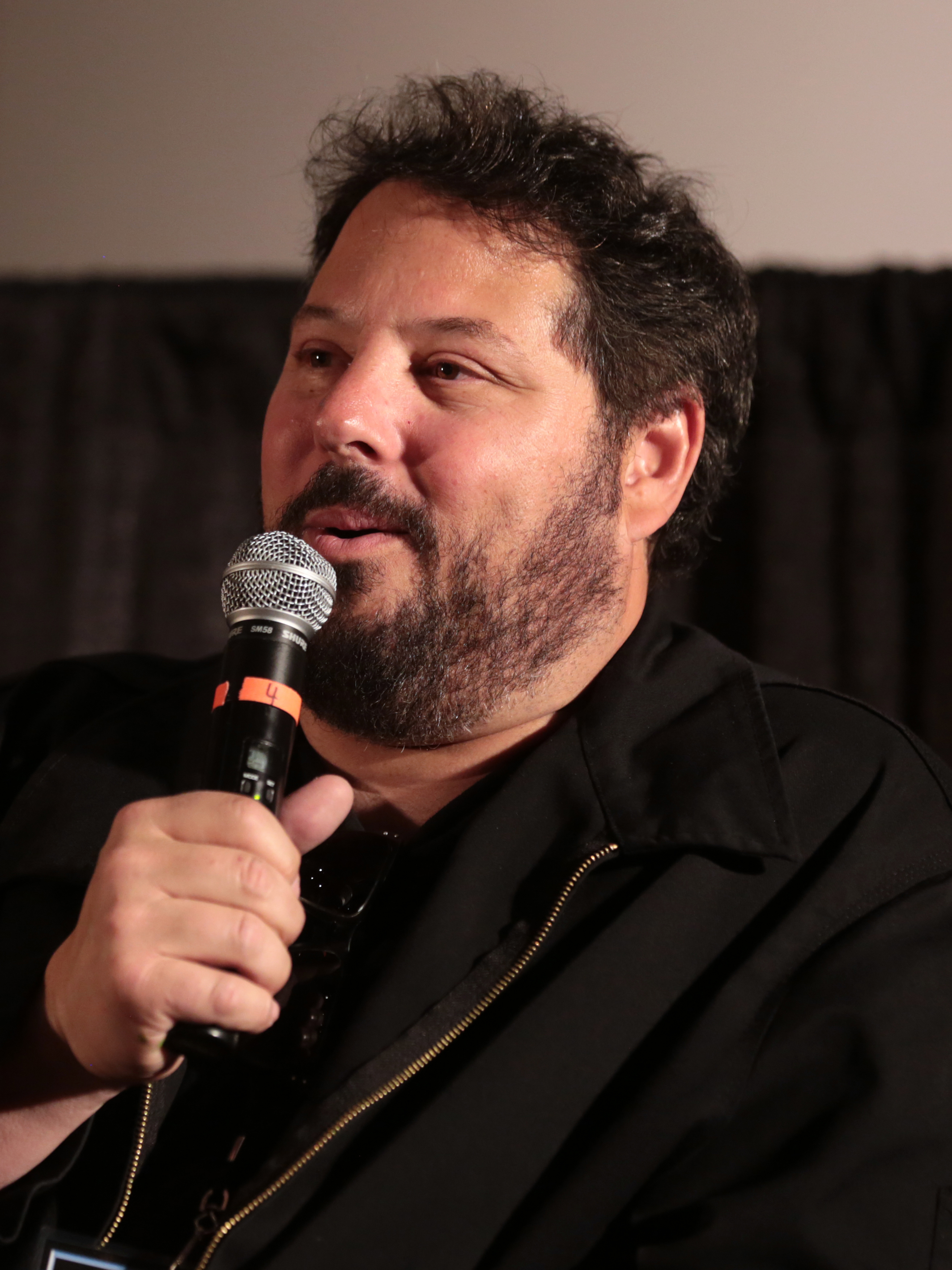 Greg Grunberg speaking at the 2018 Phoenix Comic Fest in Phoenix, Arizona.